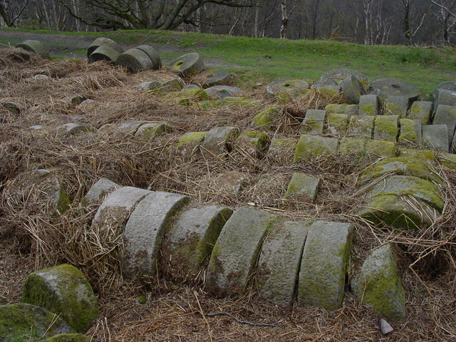 A forgotten industry -Millstone Factory site